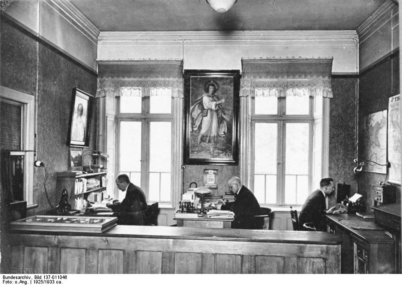 Translation of the original caption from the German Federal Archive: Hamburg, St. Raphael Society Hamburg, Information office of the St. Raphael Society [Hamburg.-St. Raphael Society, Society for the protection of Catholic emigrants, Information office]